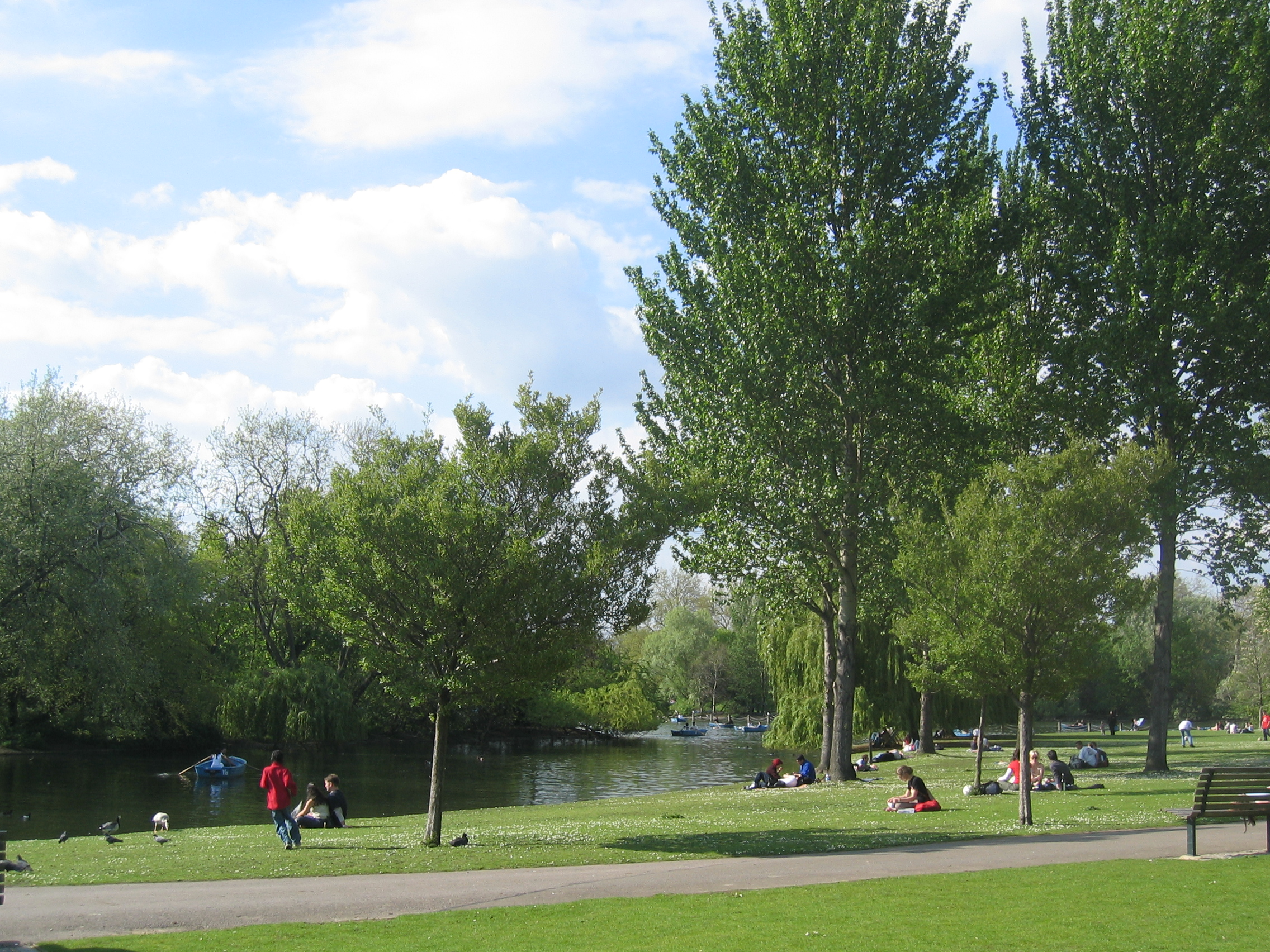 Regent's Park London